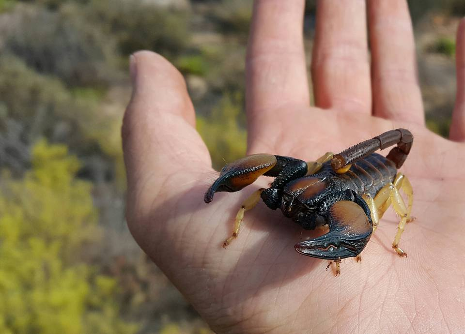 Opistophthalmus pallipes - near Klawer, Western Cape, South Africa